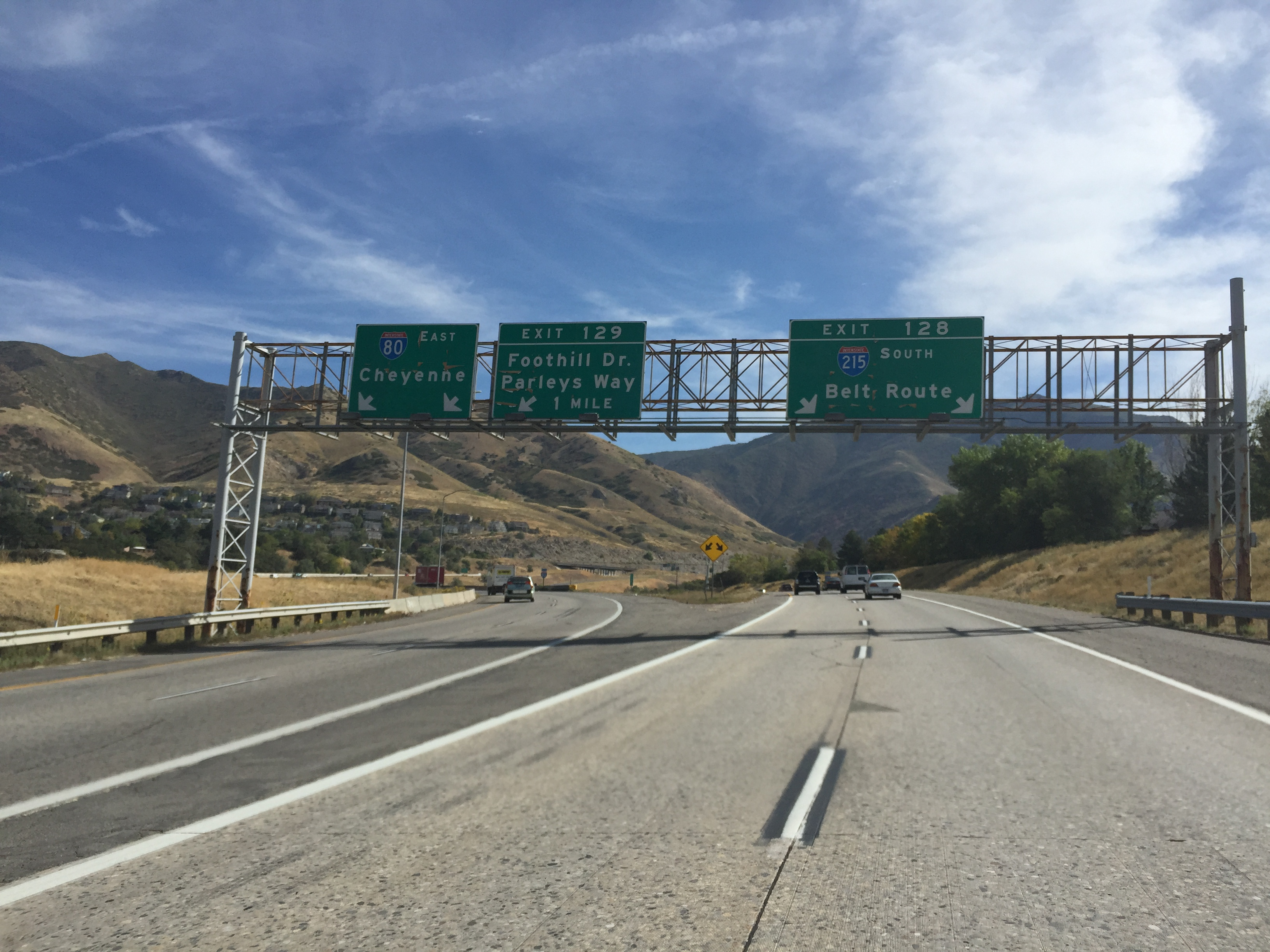 View east along Interstate 80 about 127 miles east of the Nevada state line at the junction with Interstate 215 in Salt Lake City, Utah